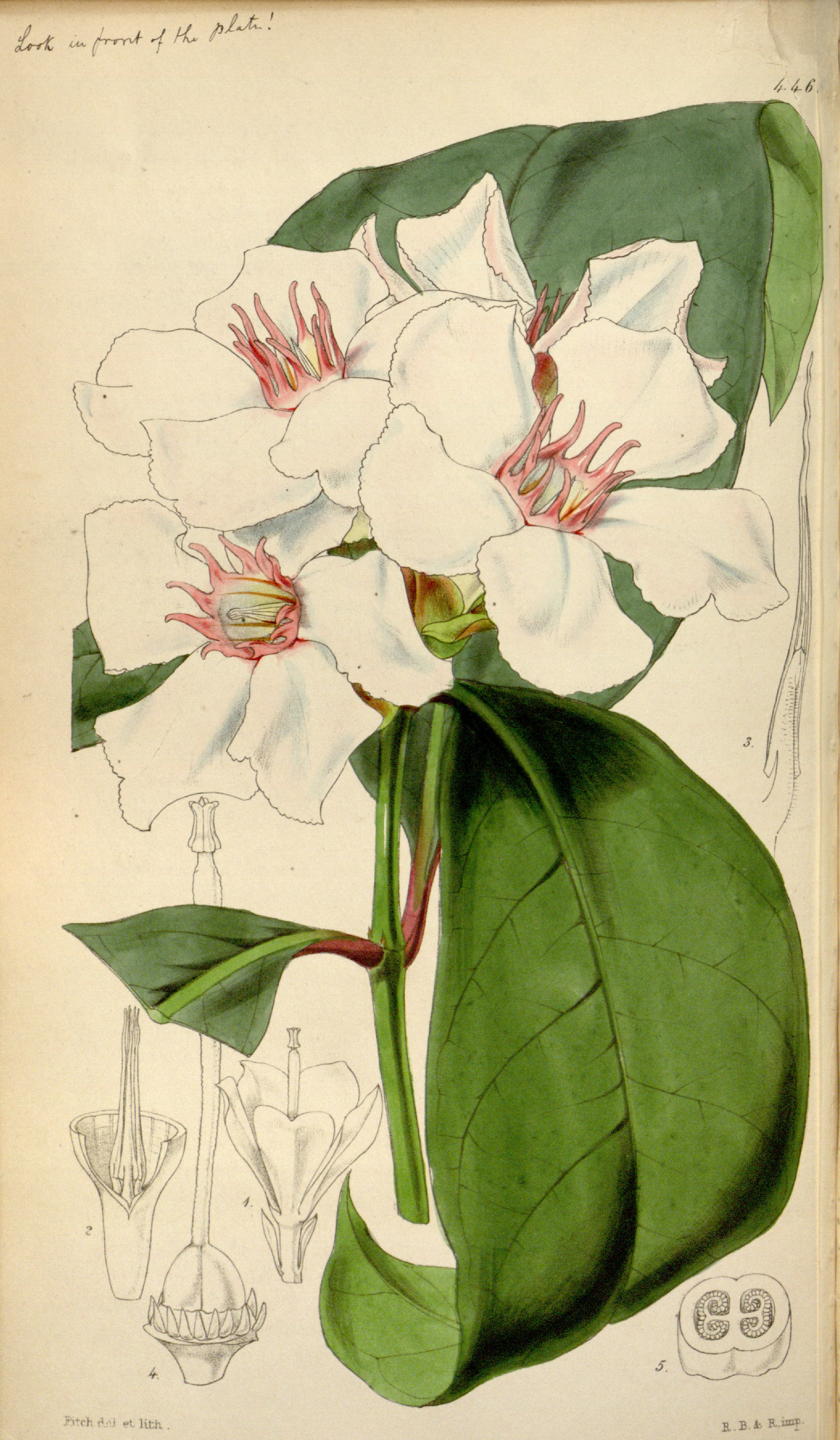 Strophanthus gratus